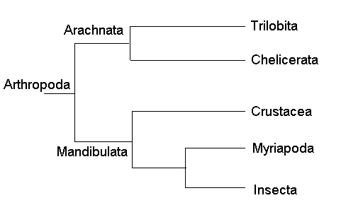 Arthropod phylogeny according to Paulus H F (1979)